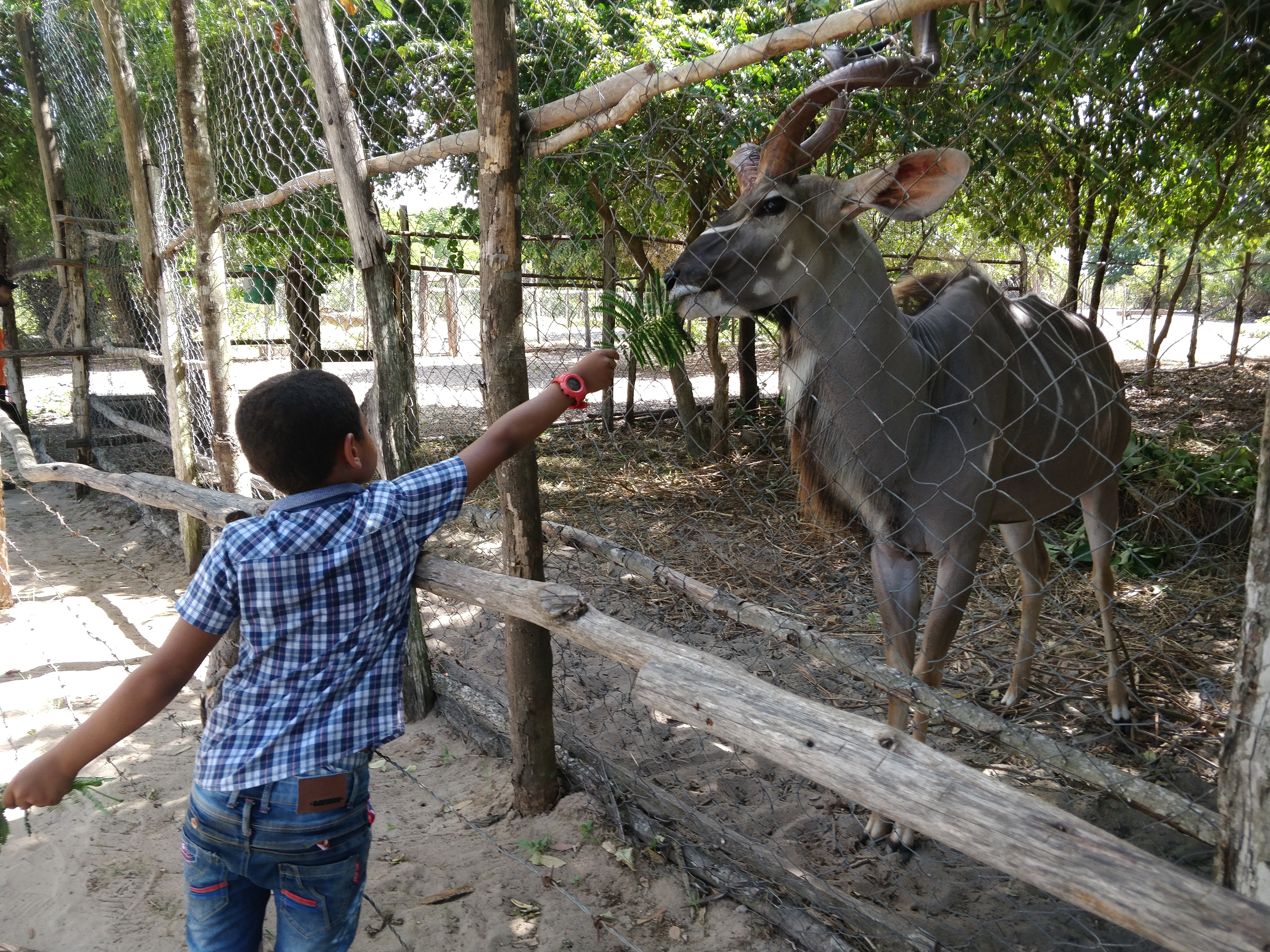 This is an image with the theme "Play" from: Tanzania